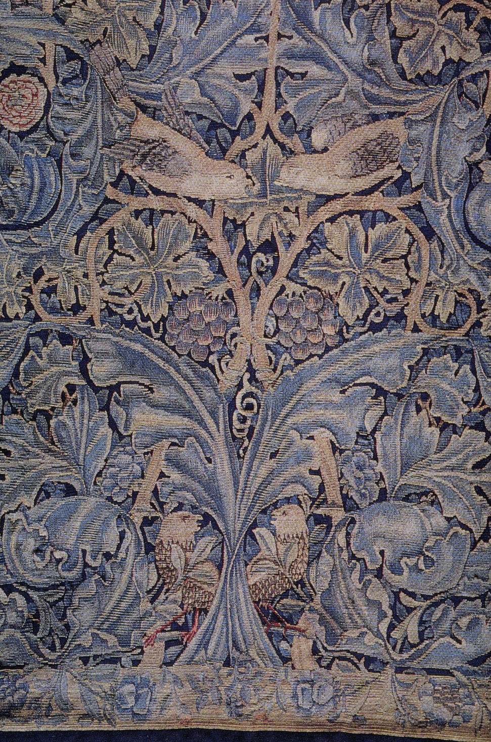 Portion of Cabbage and Vine tapestry, William Morris's first tapestry woven at Kelmscott House in the summer of 1879. (Identification from Linda Parry: William Morris Textiles, New York, Viking Press, 1983, ISBN 0-670-77074-4, p. 100-101)